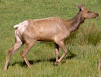 female Tule Elk on Tomales Point, Marin County, from a photo taken looking east near 38.22215 N 122.97716 W